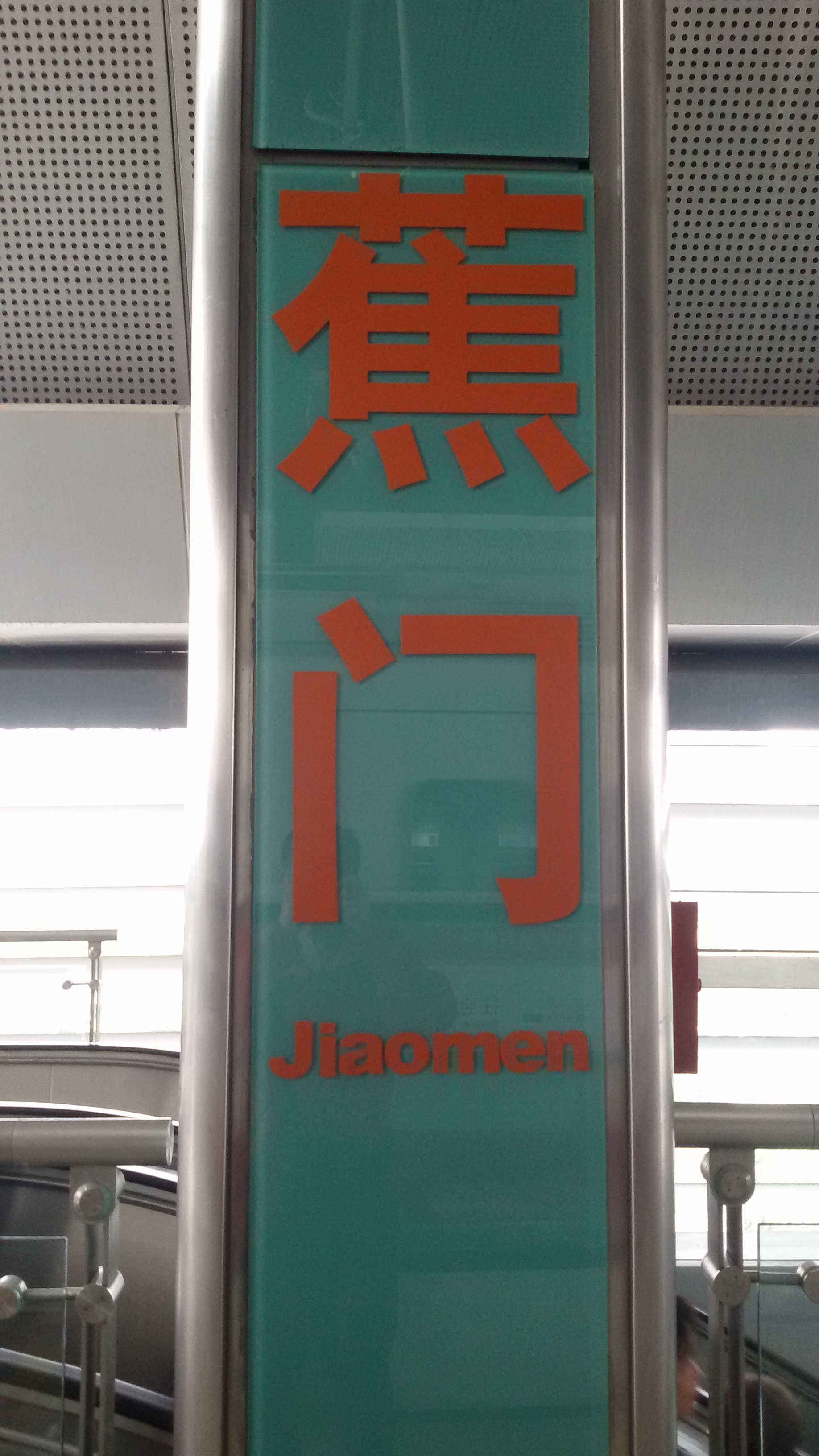 WORD on PILLAR for Jiaomen Station in Guangzhou Metro